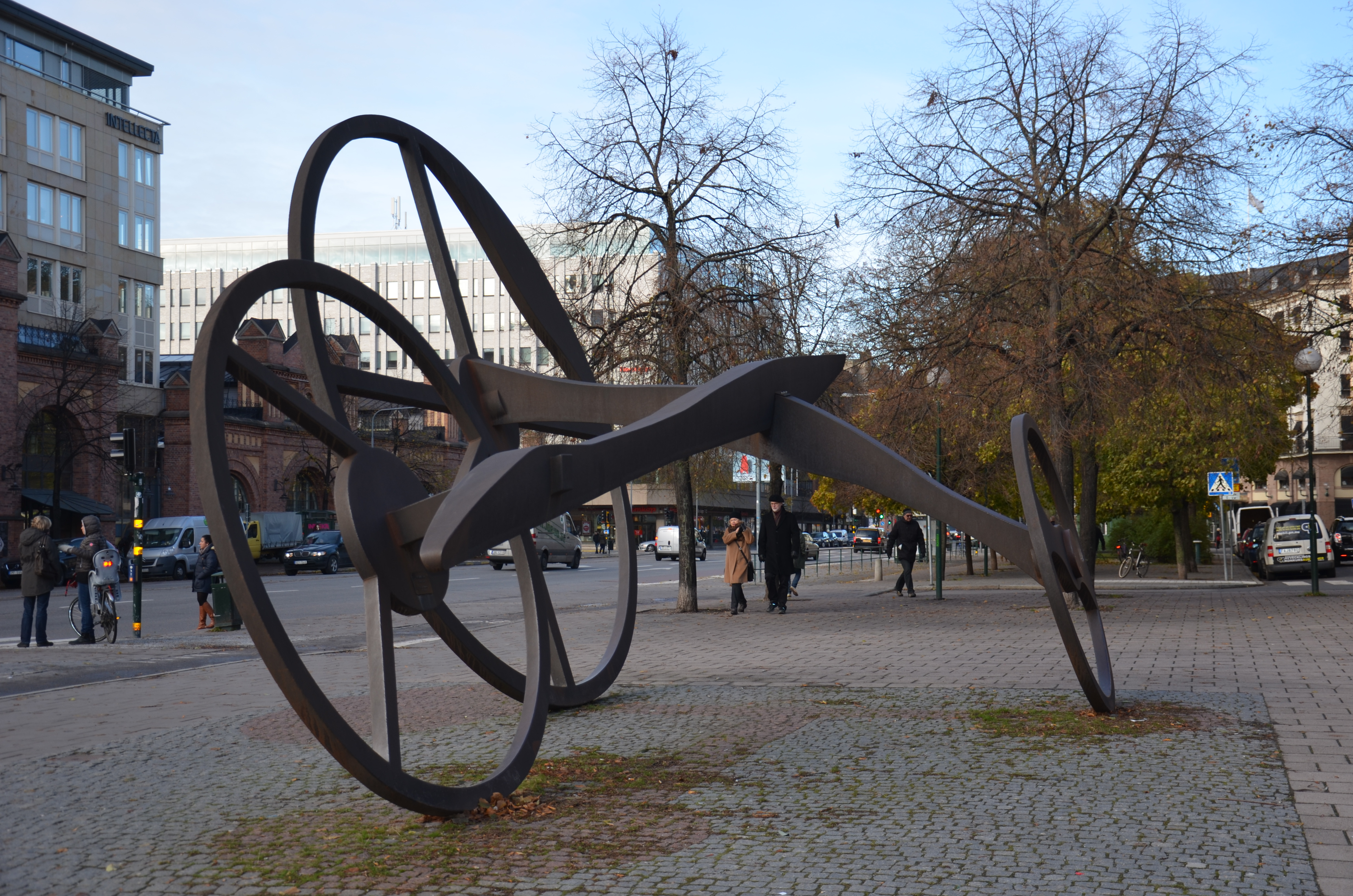 Fordon av Karl Göte Bejemark, 1973, cortenstål, Eriksbergsplan i Stockholm